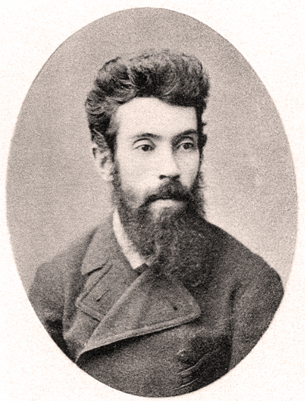 Alexander Dogel (1852-1922), hystologist, embryologist